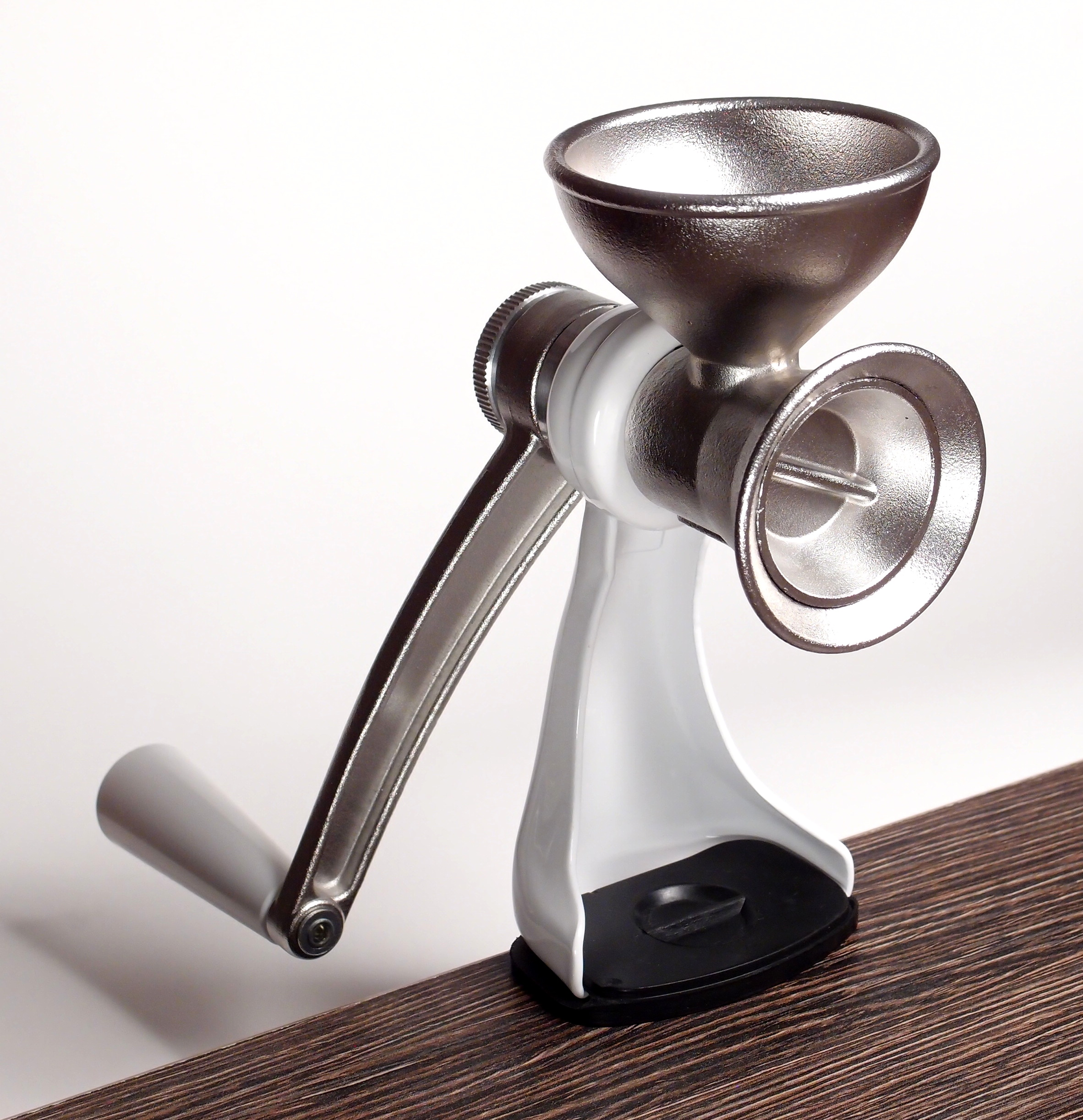 Hand-operated poppy seed grinder, made by German company Jupiter Küchenmaschinen (kitchen appliances) – although not necessarily in Germany. Model no. 560.